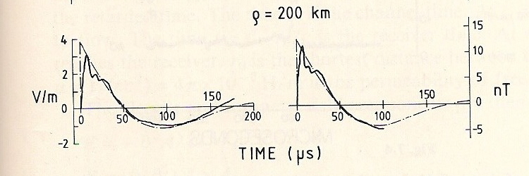 Waveform of sferic